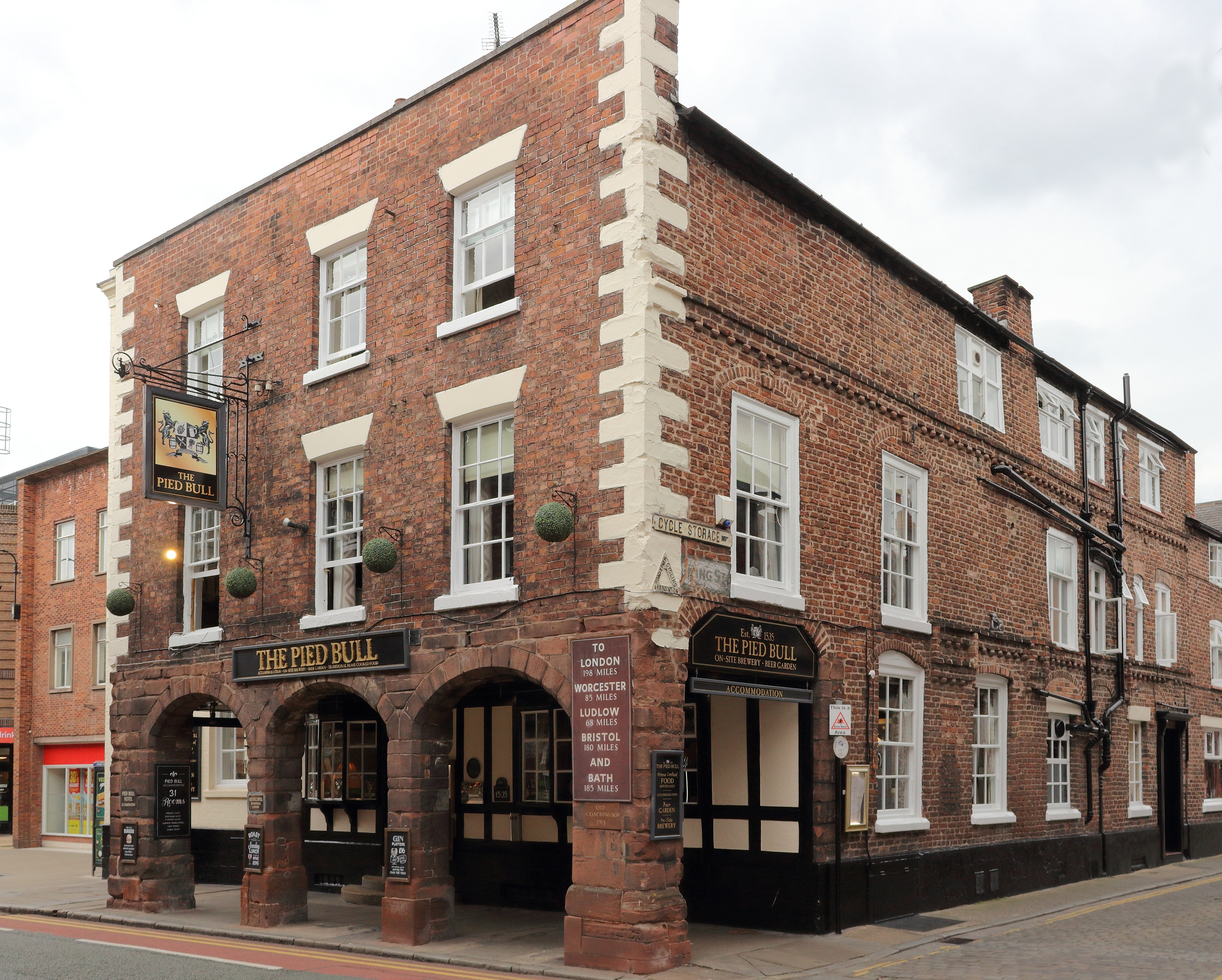 Grade II* listed pub on Northgate Street, Chester, dating to 17th century, and possibly earlier.